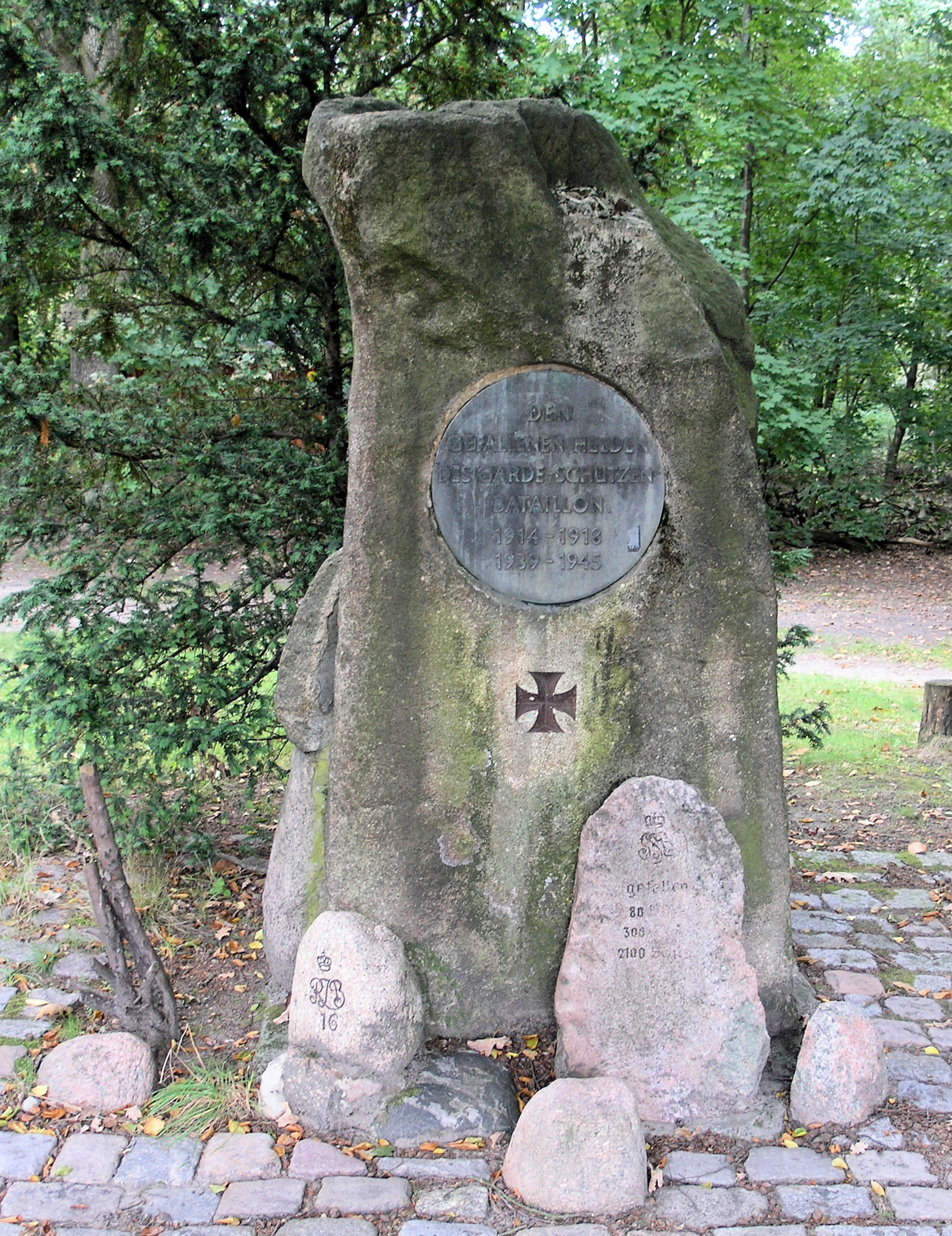 Memorial stone, Garde-Schützen-Bataillon, Clayallee 91, Berlin-Dahlem, Germany Koordinate:52°27′37″N 13°16′28″E / 52.46028°N 13.27444°E